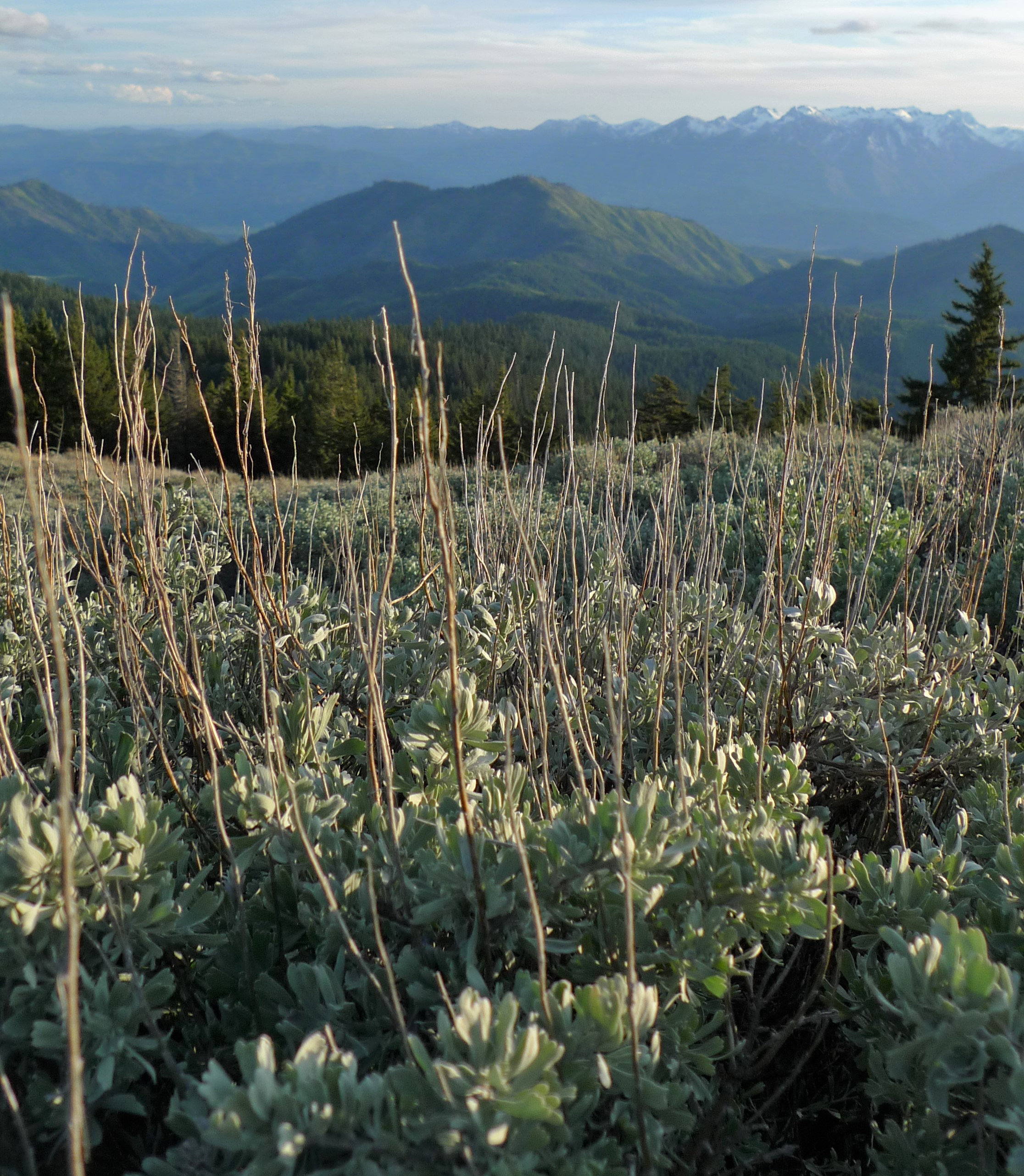 Artemisia tridentata ssp. vaseyana on Chumstick Mountain, Chelan County Washington